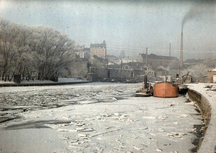 Klara sjö from Stadshusbron. Stockholm 1927.